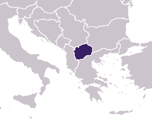 Location of the Republic of Macedonia